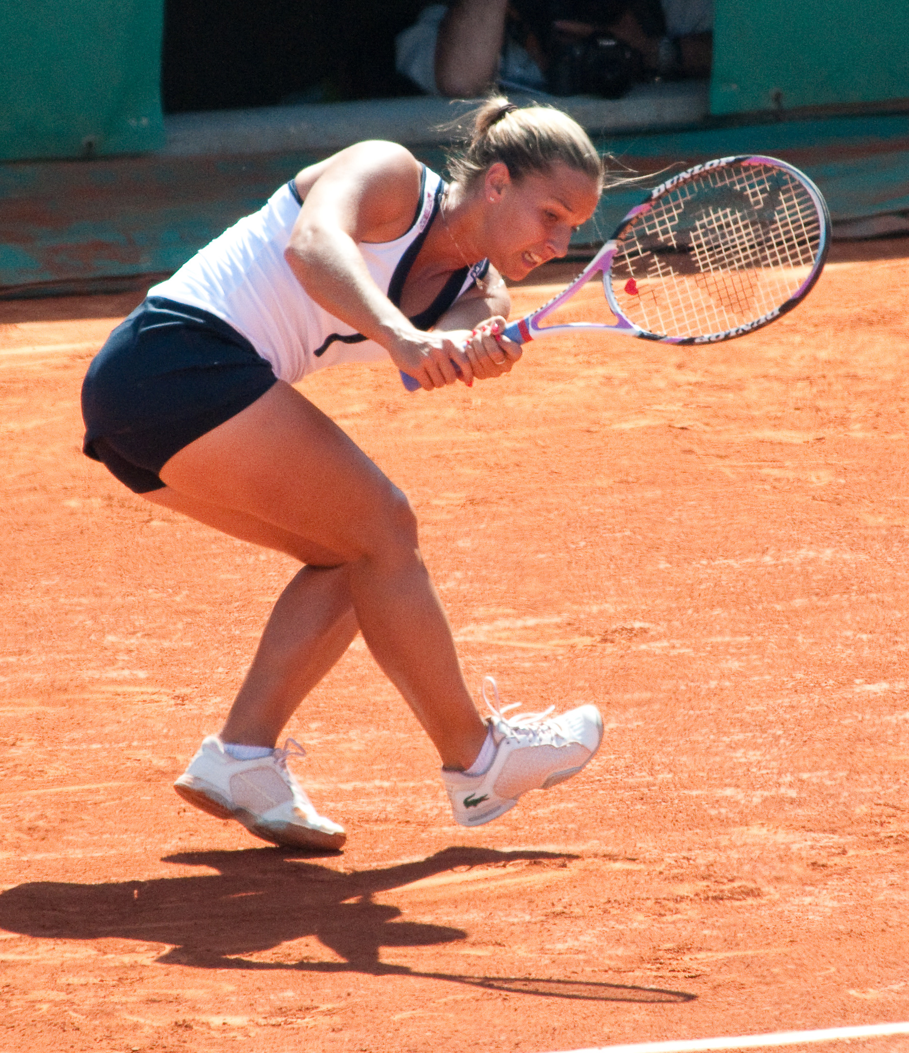 Dominika Cibulková at 2009 Roland Garros, Paris, France